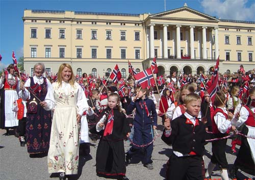 Norwegians dressed in bunad parading in front of the royal family on May 17th.